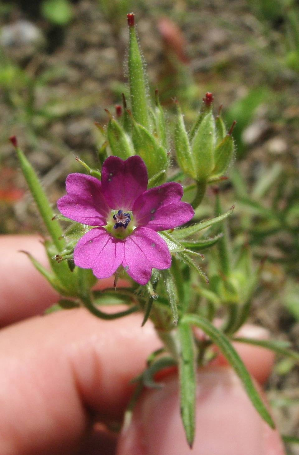 Geranium dissectum flower in Cologne, Germany.